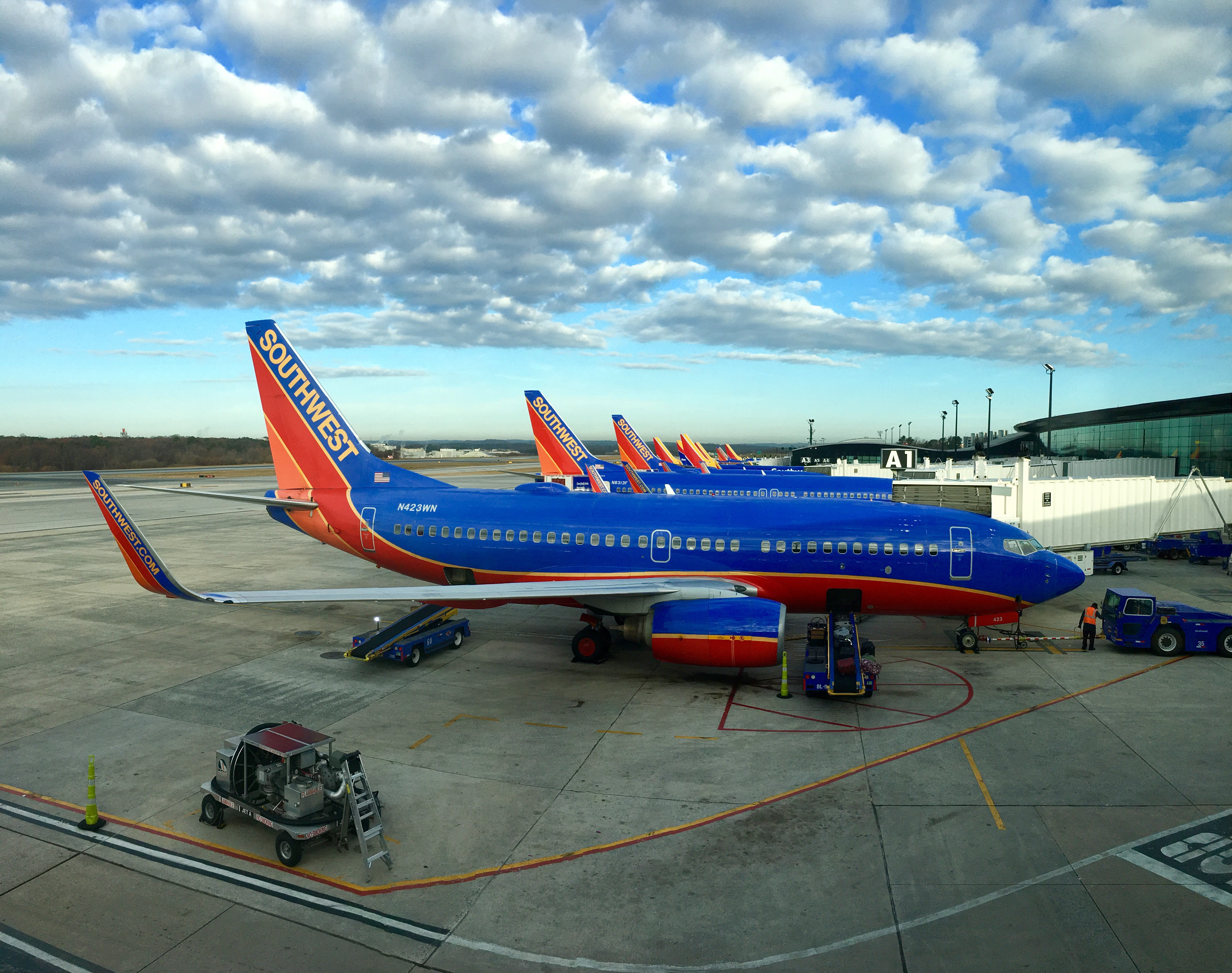 Southwest tails at BWI